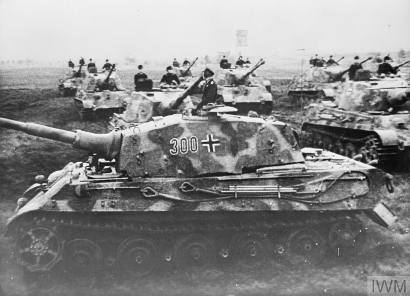 "Leutnant Baron von Rosen reviews the Tiger II tanks of s.Pz. Abt 503 at Sennelager, prior to the unit's move to Hungary, 1945".